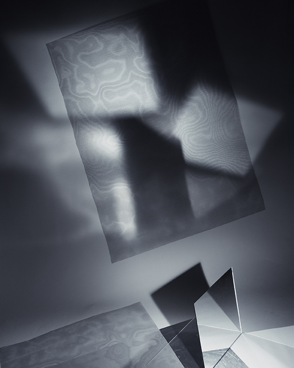 54.5x43.5 inches Archival Pigment Photograph